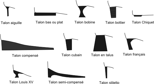 Different types of heels (in French)